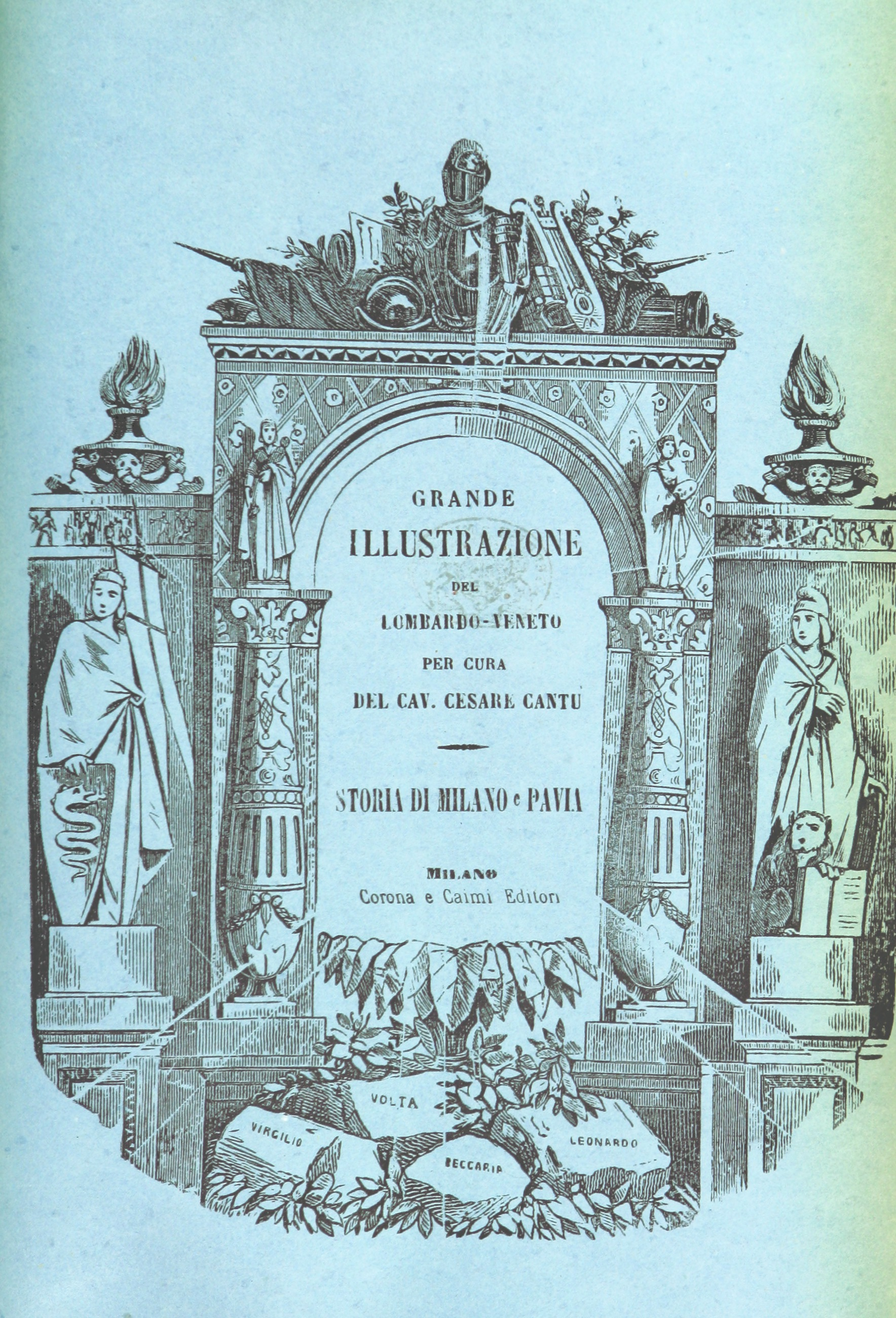 Image taken from: Title: "Grande illustrazione del Lombardo-Veneto, ossia Storia delle città, dei borghi, communi, castelli, ecc. fino ai tempi moderni, per cura di C. Cantù e d'altri letterati. Seconda edizione" Author: CANTÙ, Cesare. Shelfmark: "British Library HMNTS 10129.e.18." Volume: 01 Page: 947 Place of Publishing: Milano Date of Publishing: 1858 Issuance: monographic Identifier: 000597330 Explore: Find this item in the British Library catalogue, 'Explore'. Download the PDF for this book (volume: 01) Image found on book scan 947 (NB not necessarily a page number) Download the OCR-derived text for this volume: (plain text) or (json) Click here to see all the illustrations in this book and click here to browse other illustrations published in books in the same year. Order a higher quality version from here.